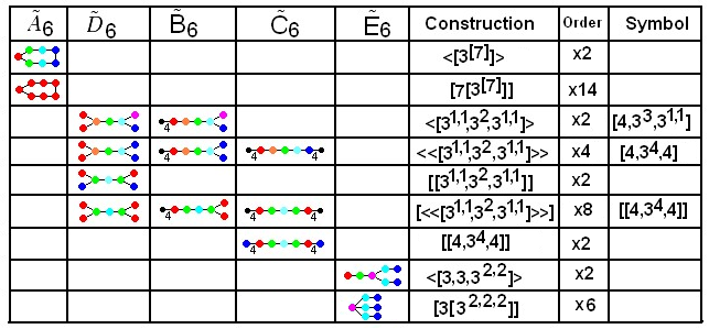 Coxeter-Dynkin diagrams for affine Coxeter group symmetries